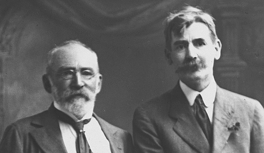 Photograph of J. F. Archibald and Henry Lawson.